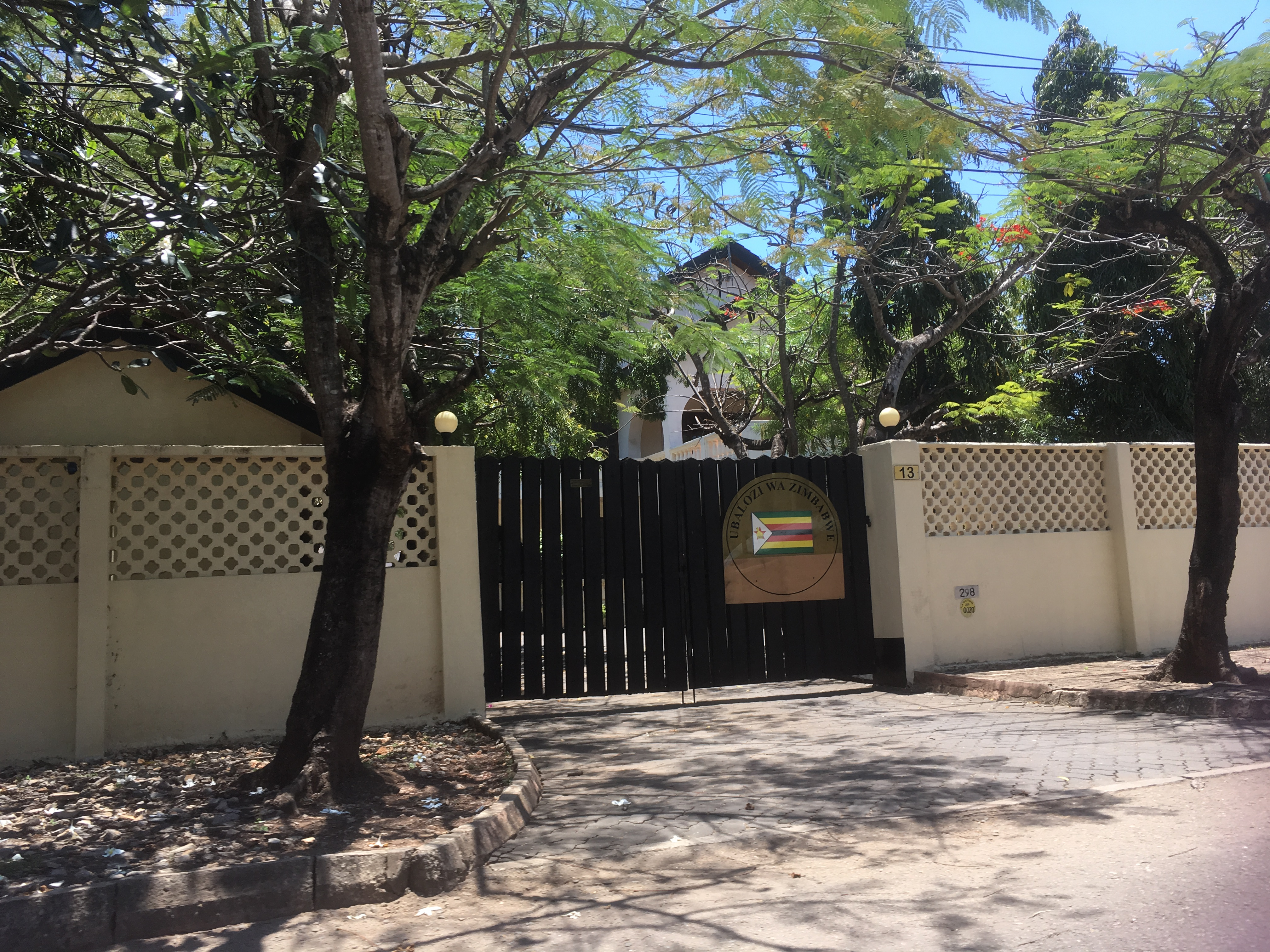 Embassy of Zimbabwe in Dar es Salaam, Tanzania.